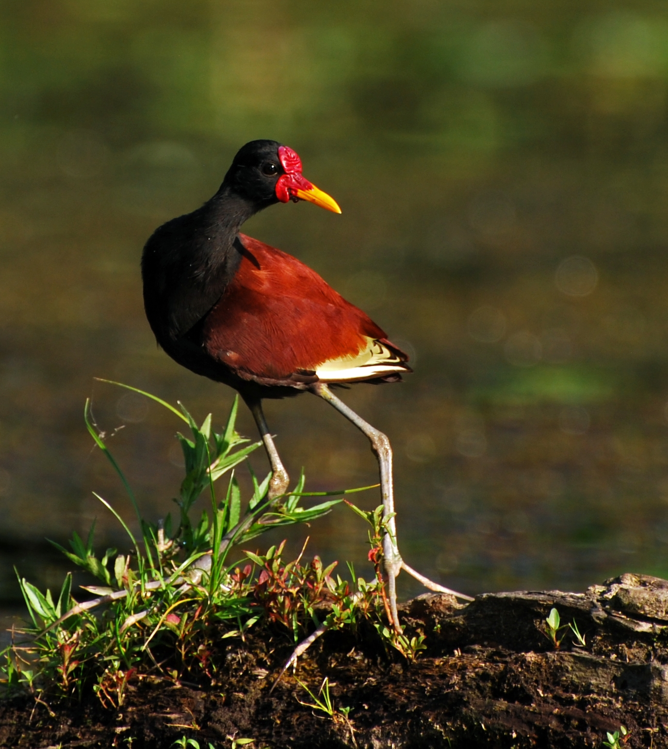 An adult Wattled Jacana near Yarina Lodge, Napo Province, Ecuador.